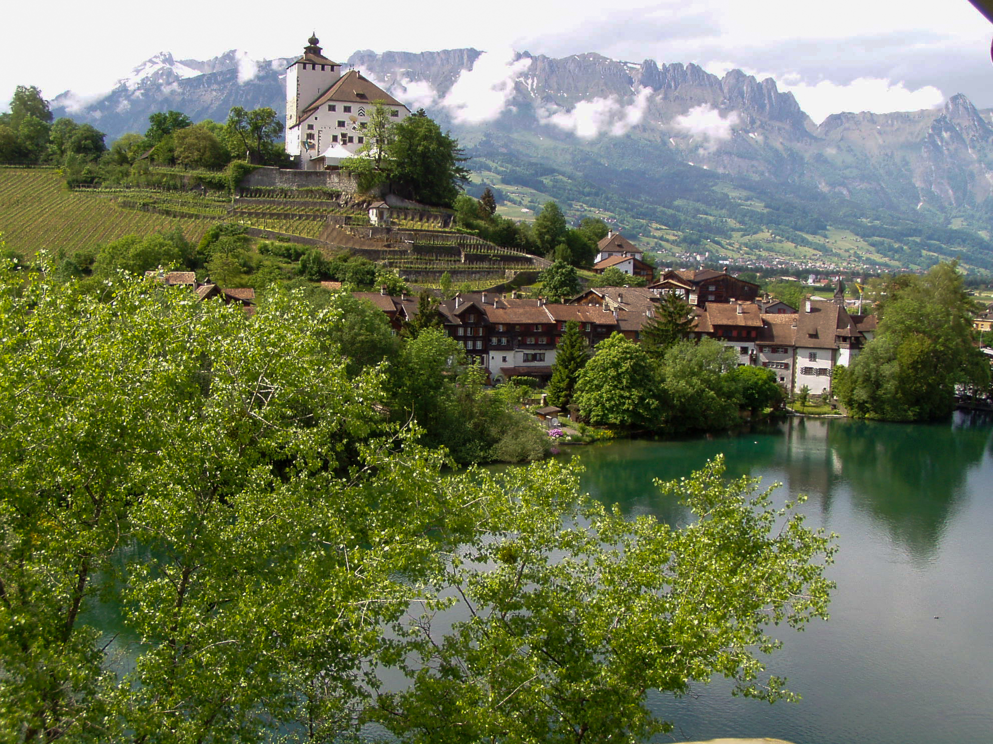 Village Werdenberg and Werdenberg castle